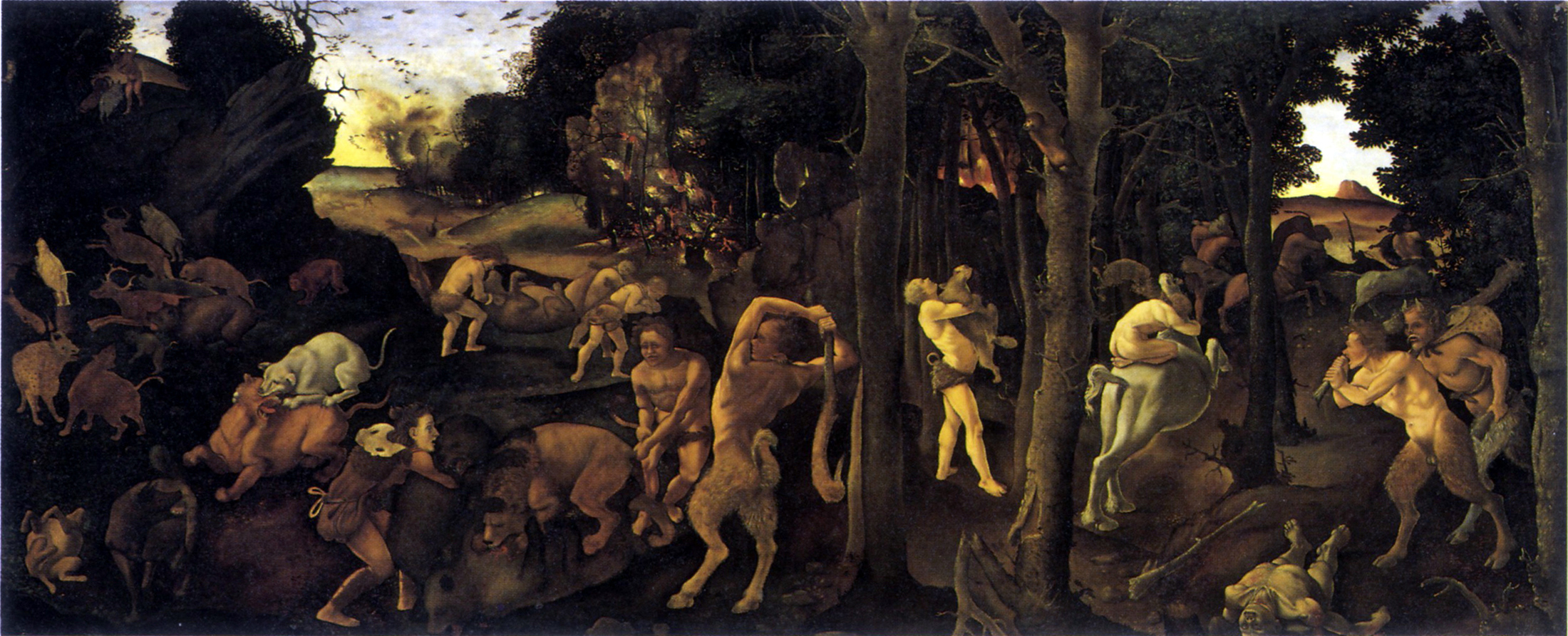 Hunt Piero di Cosimo Oil and tempera on panel, 70.5 x 169.5 cm New York, Metropolitan Museum of Art